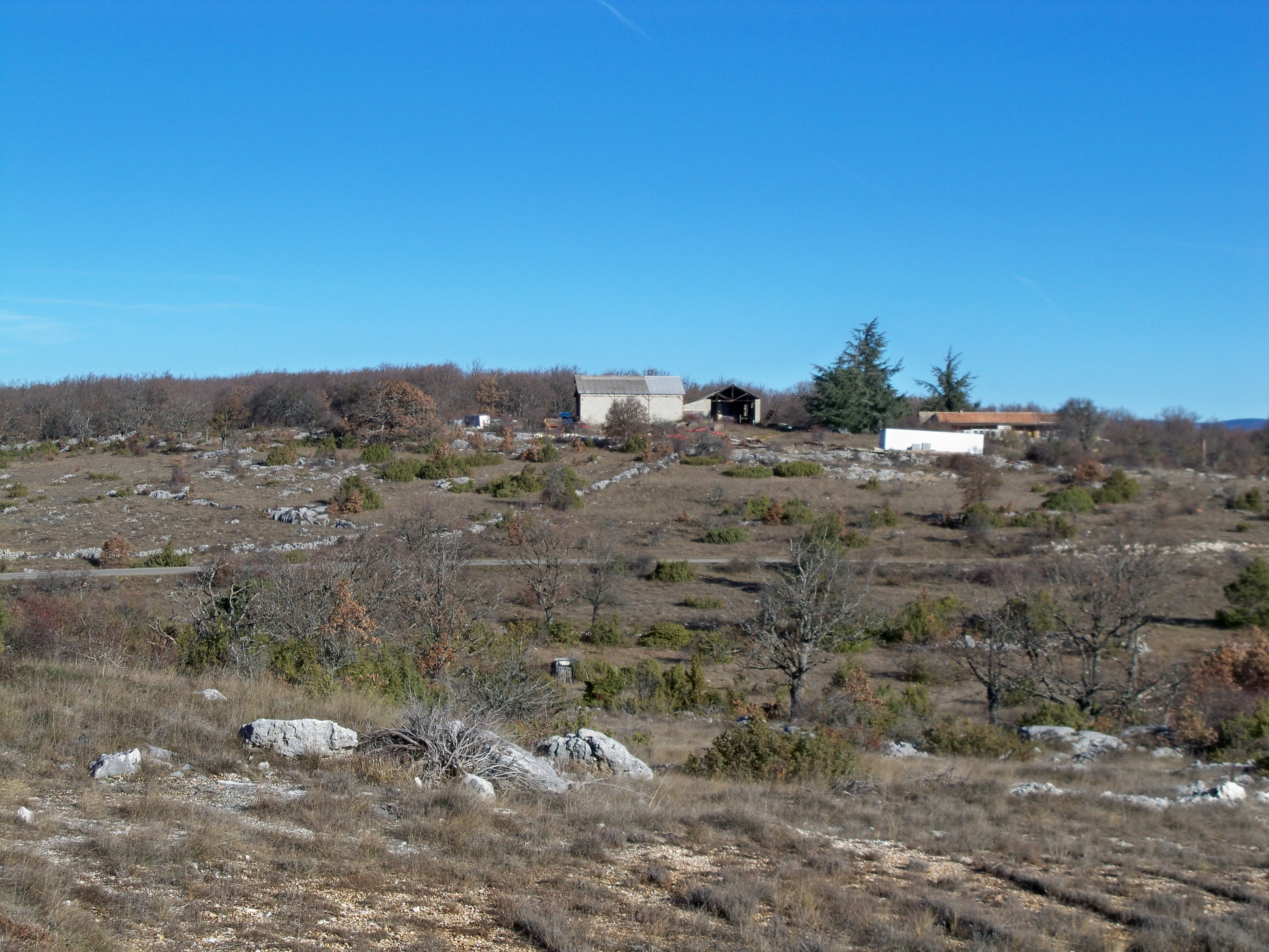 paysage du plateau d'albion